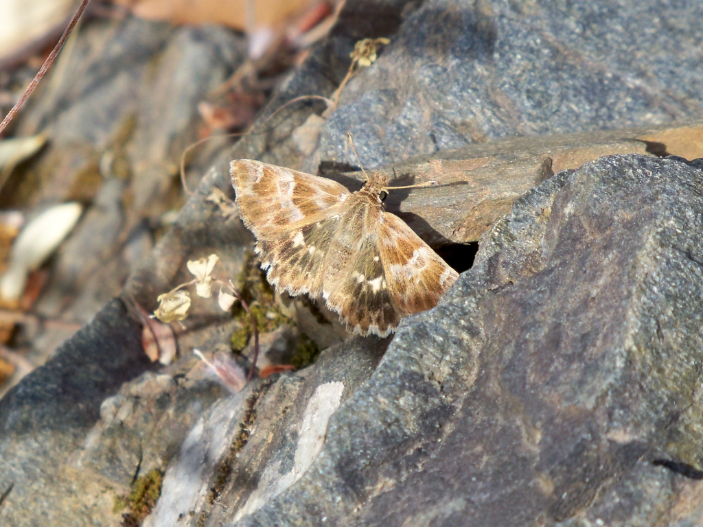 Southern marbled skipper (Carcharodus baeticus), Málaga, Spain.